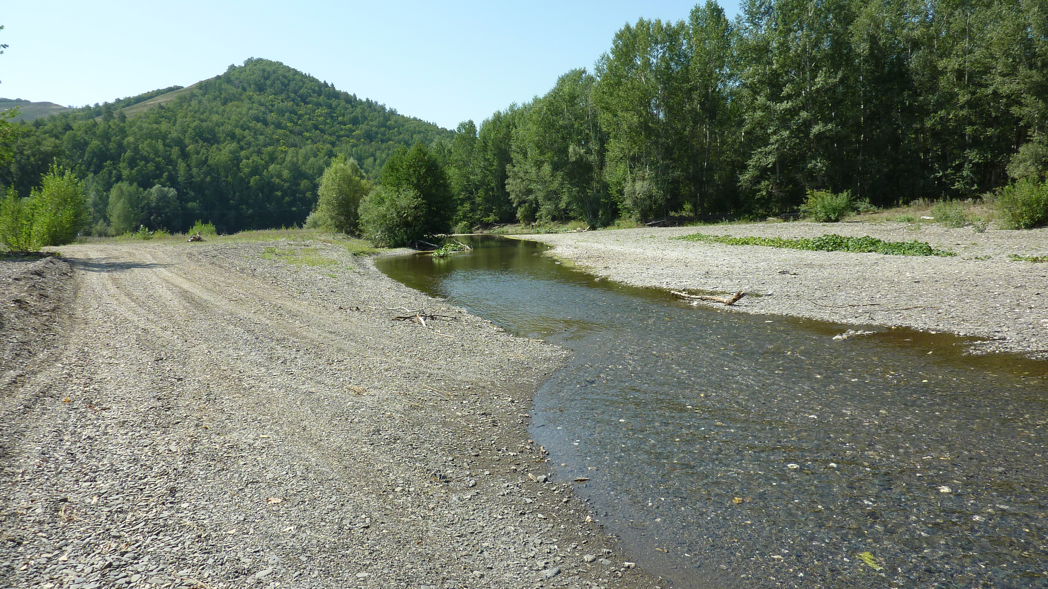 Beach on the Bol'shoy Ik.